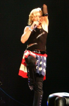 Madonna - Sept 2001 - Los Angeles